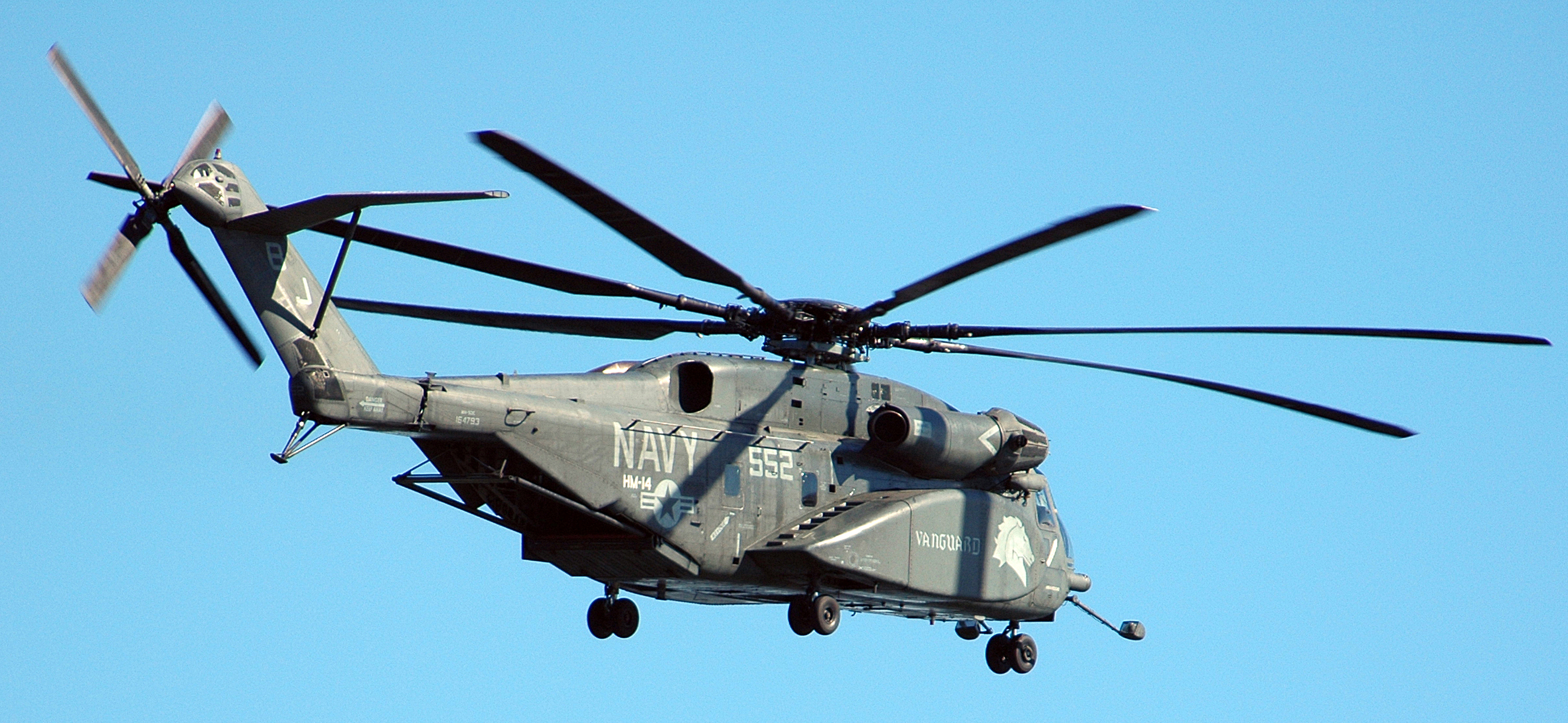 Norfolk, Va. (Feb. 5, 2005) – An MH-53E Sea Dragon helicopter, assigned to the “Vanguard” of Helicopter Mine Countermeasures Squadron Fourteen (HM-14), flies over Naval Station Norfolk, Va., during a routine training mission. HM-14 is one of the two squadrons Navy-wide that has integrated a Reserve airborne countermeasures squadron with its active duty counterpart. The MH-53E Sea Dragon is a mine-countermeasures derivative of the CH-53E Super Stallion. It is heavier and has a greater fuel capacity that the Super Stallion. The MH-53E is capable of towing a variety of minesweeping countermeasures systems, including the MK 105 minesweeping sled, the AQS-14 side-scan sonar, and the MK 103 mechanical minesweeping system. U.S. Navy photo by Photographer’s Mate 2nd Class Daniel J. McLain (RELEASED)